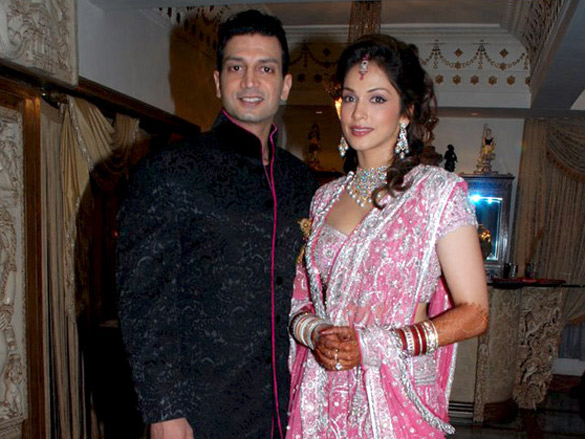 Isha Koppikhar wedding